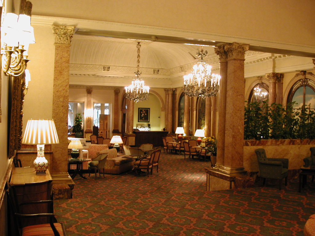 Interior of the Savoy Hotel in London